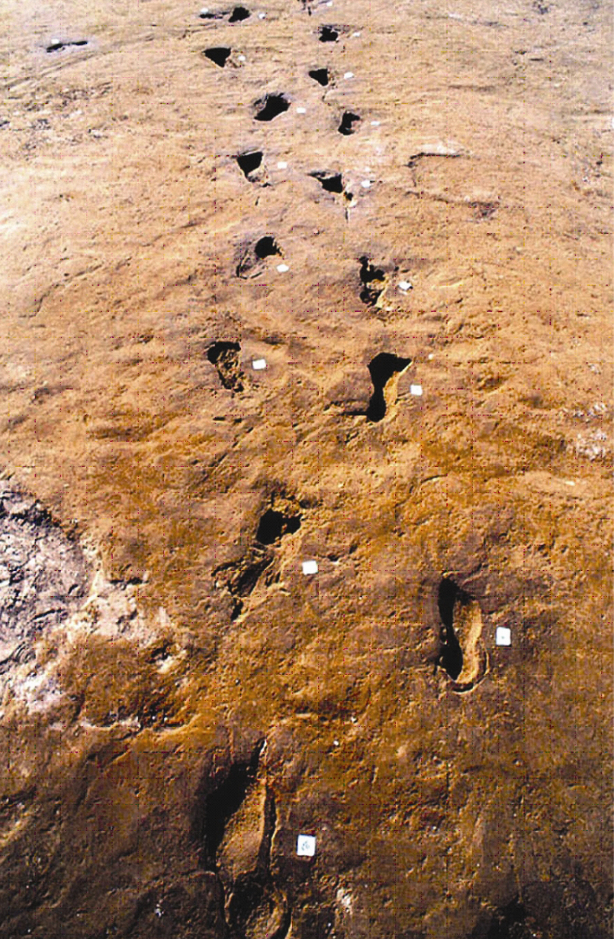 Thousands of footprints in the surge ash deposit of the Avellino eruption (3460 BP ca.-(+/-65 yrs, carbon-dated)) testify to an en masse exodus from the devastated zone.